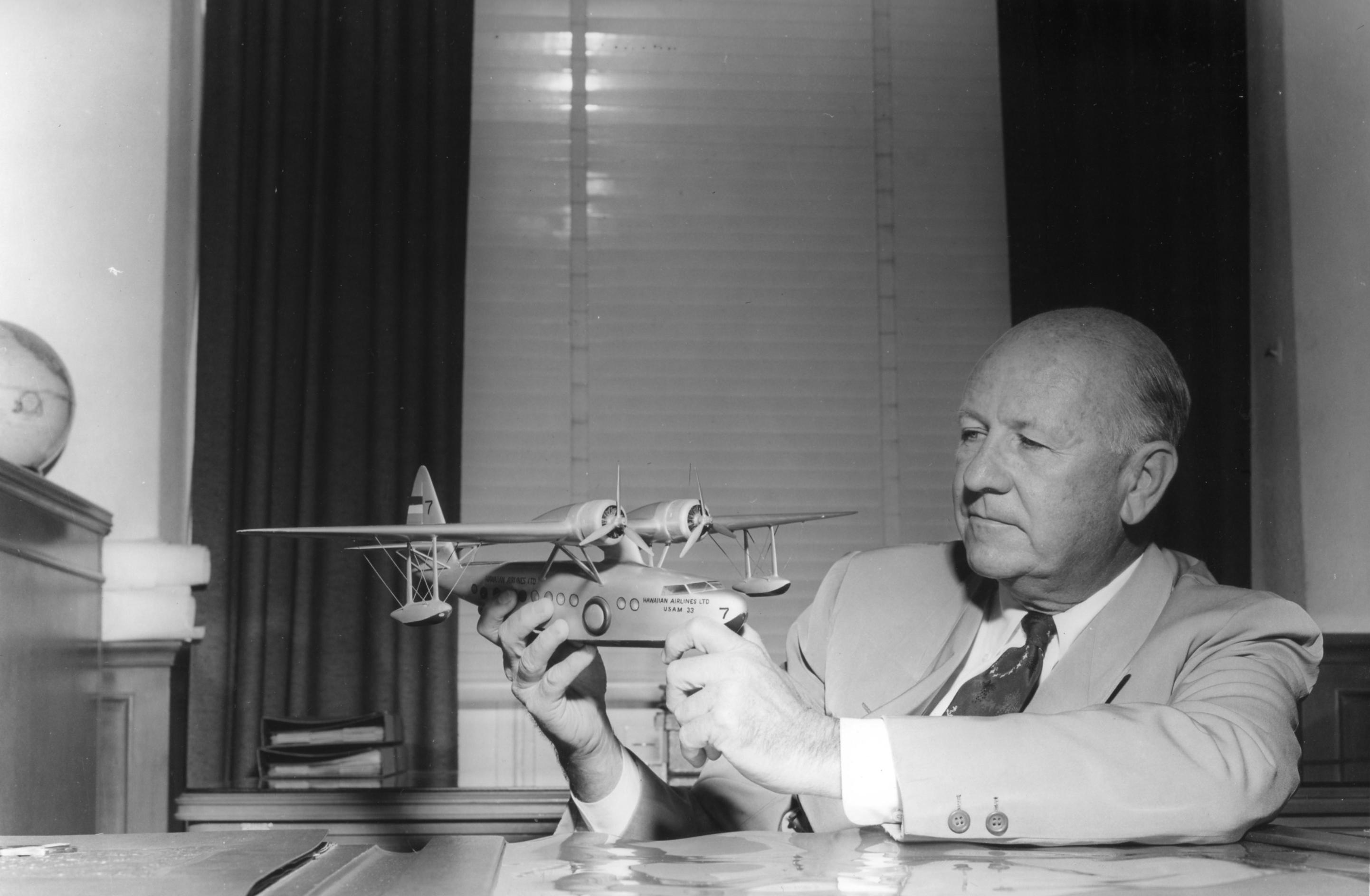 Hawaiian Airlines' founder Stanley C. Kennedy Sr. at his desk in Honolulu.